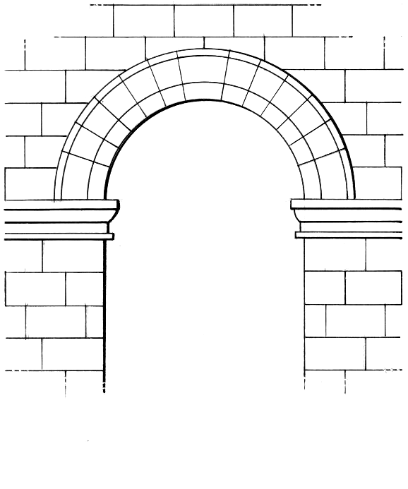 line art drawing of an arch.